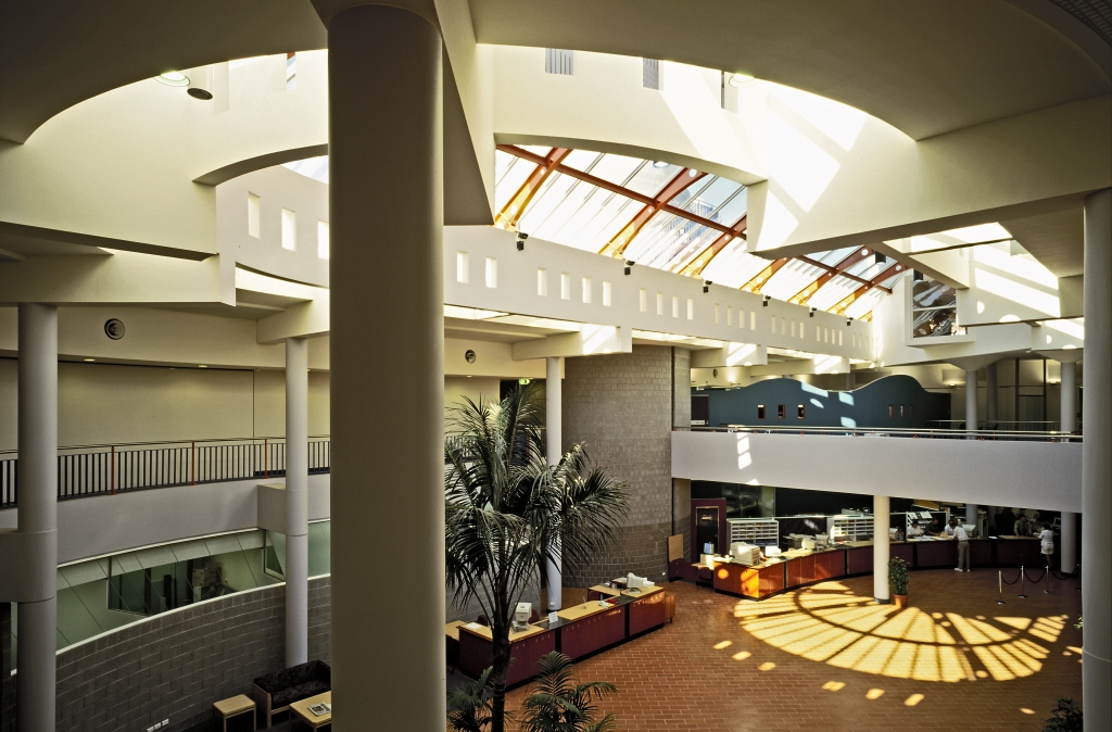 Penrith Civic Centre, New South Wales, Australia. Atrium interior public space. Architect Feiko Bouman